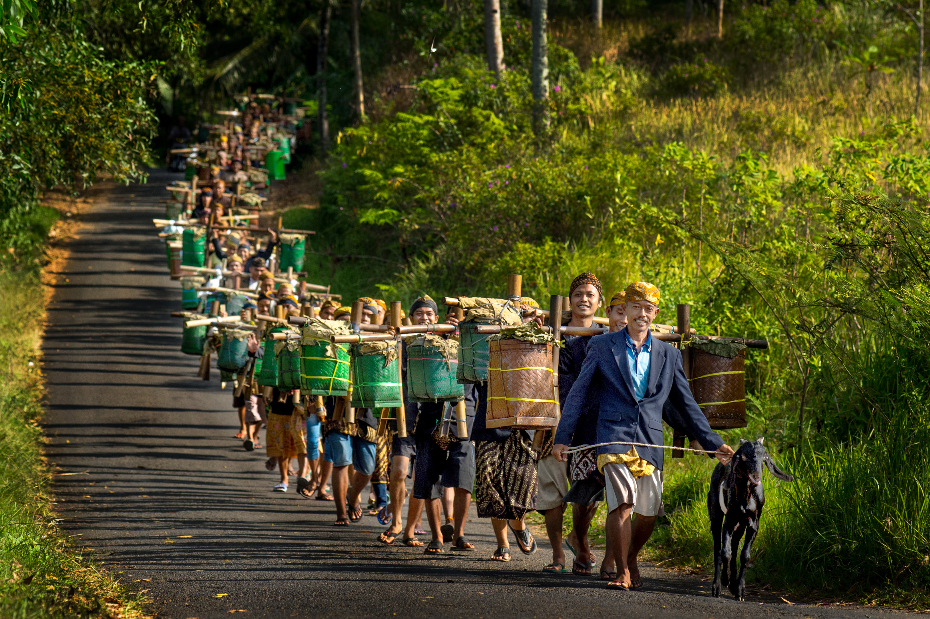 Unggahan is a slametan ritual performed by the customary law society of Bonokeling in Banyumas, Central Java, Indonesia. This ritual is usually conducted during the last Friday before Ramadan. Members of this customary law society would walk dozens of kilometers to the grave of their ancestors to honour them.